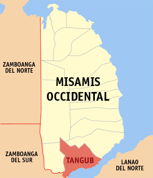 Map of the Misamis Occidental showing the location of Tangub